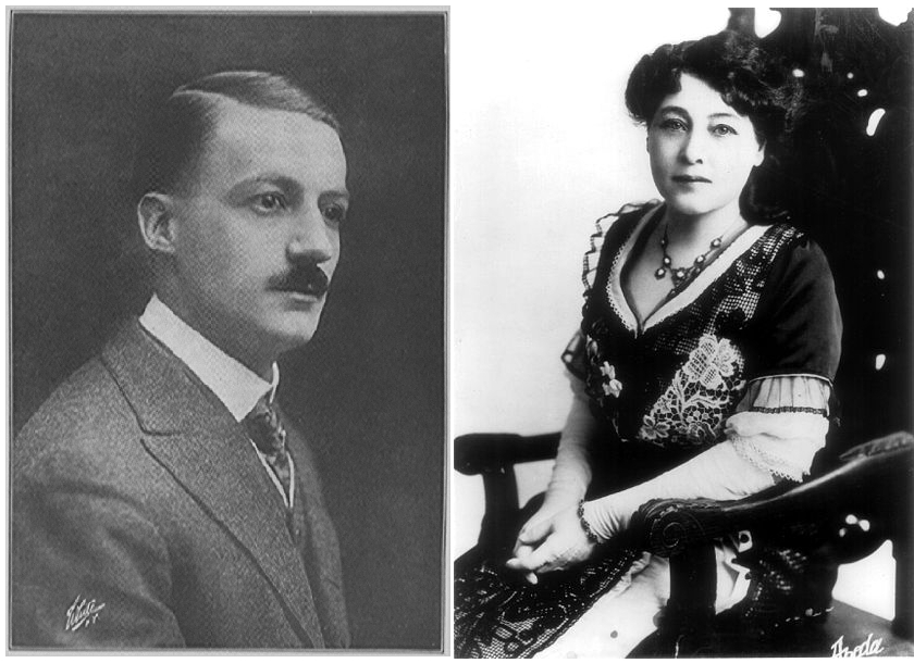 Herbert Blaché (5 October 1882 – 23 October 1953) and Alice Guy-Blaché (July 1, 1873 – March 24, 1968)